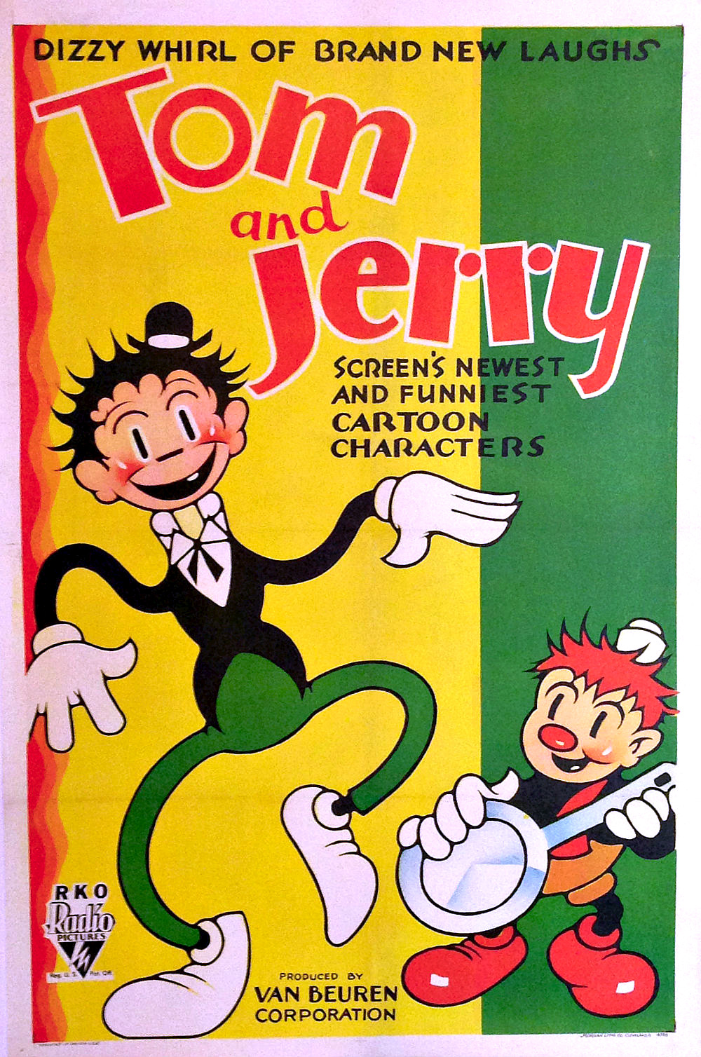 Poster for the comic characters Tom and Jerry. These characters were produced by Van Beuren Studios from 1931-1933. The cartoon shorts were distributed by RKO and have no connection to the cartoon cat and mouse of the same name.